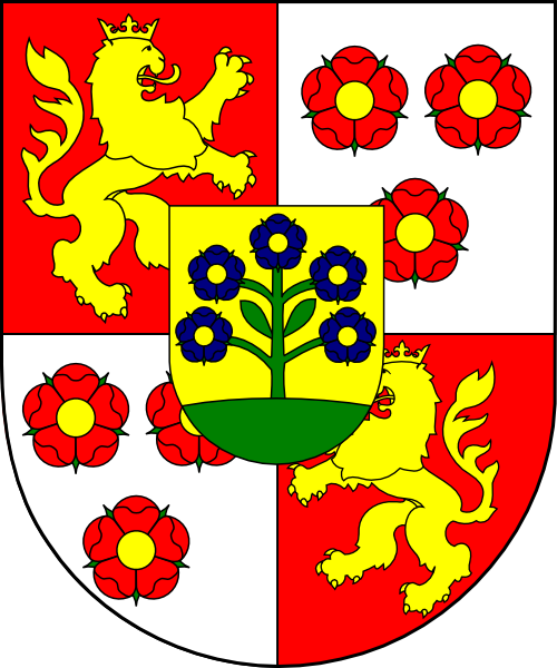 Coat of arms (shield only) of Hermann Hannibal von Blumegen, bishop of Hradec Králové, Czech Republic (1764 - 1774).